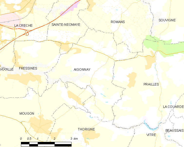 Map of French municipality Aigonnay